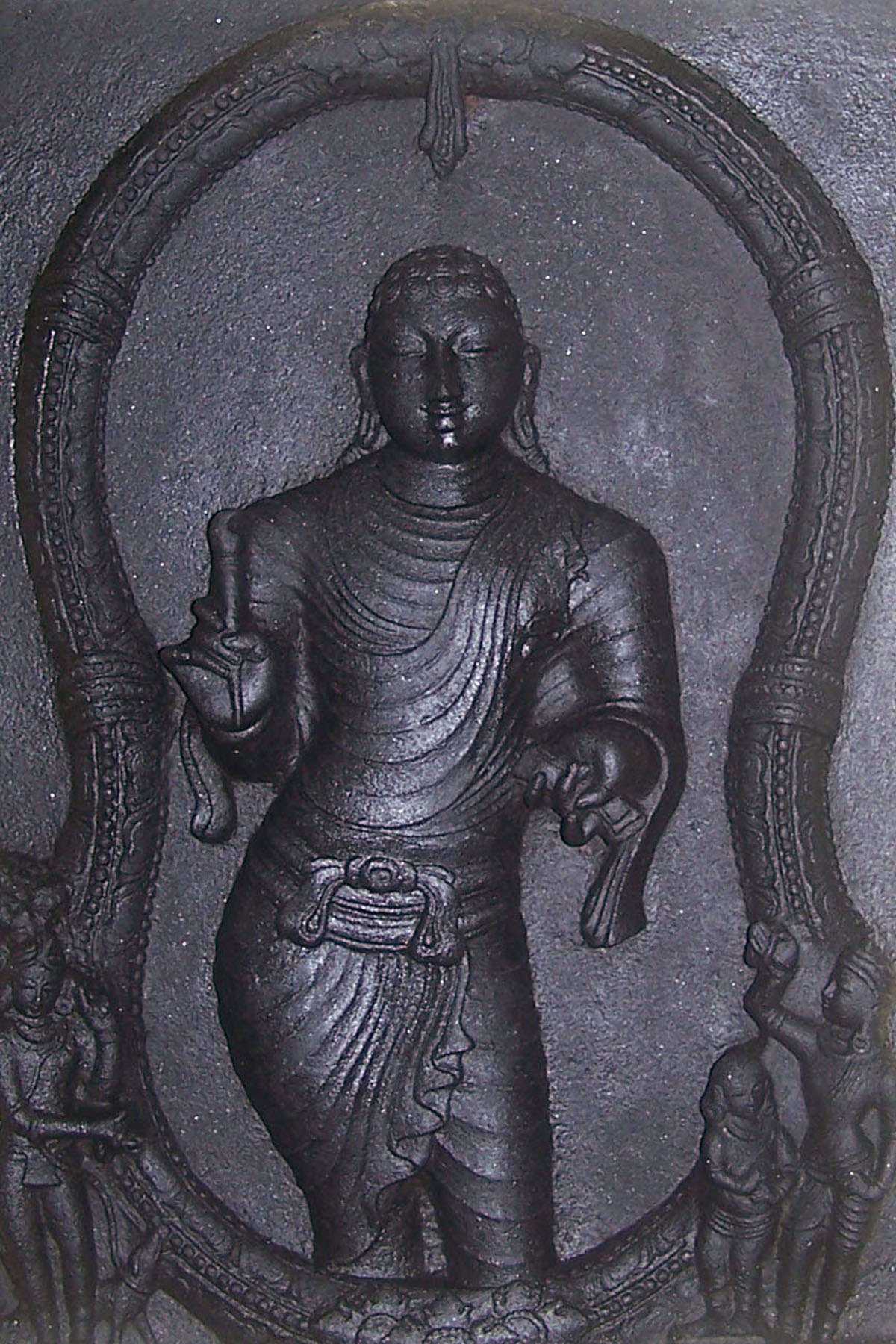 Sculpture of Ilango in Poompuhar [Puhar] - TamilNadu - India